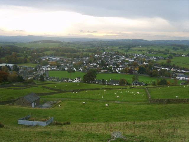 Staveley Above the waterworks hut on the flank of Reston Scar